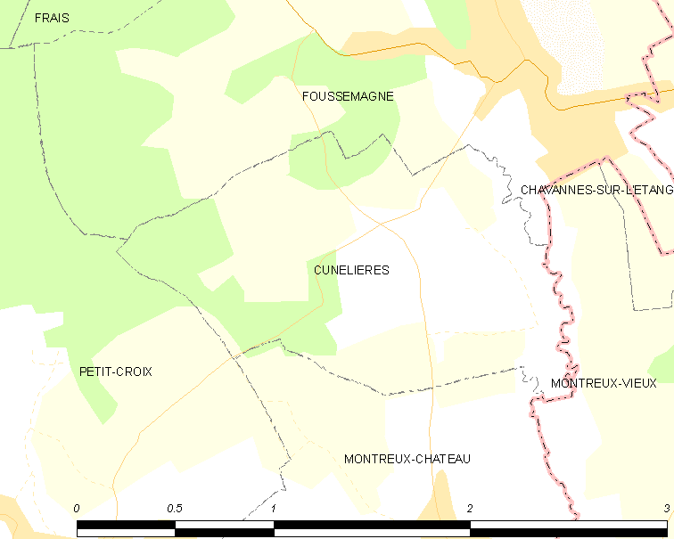 Map of French municipality Cunelières